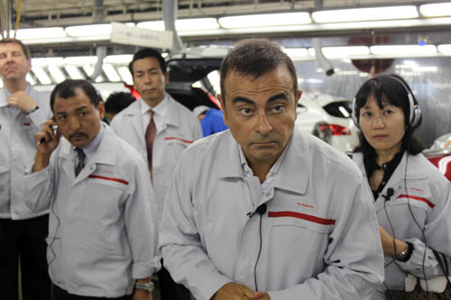 Carlos Ghosn answering reporters' questions at the Nissan factory in Kyushu, Japan. Picture by Bertel Schmitt